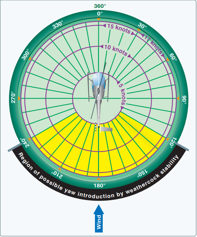 Weathercock stability